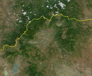 Satellite view of Meglena (Moglena) Valley on the border of the RoGreece and RoMacedonia Zdjęcie satelitarne kotliny Meglena na granicy Grecji i Macedonii Котловината Мъглен. Държавната граница между Република Македония и Гърция е в жълто